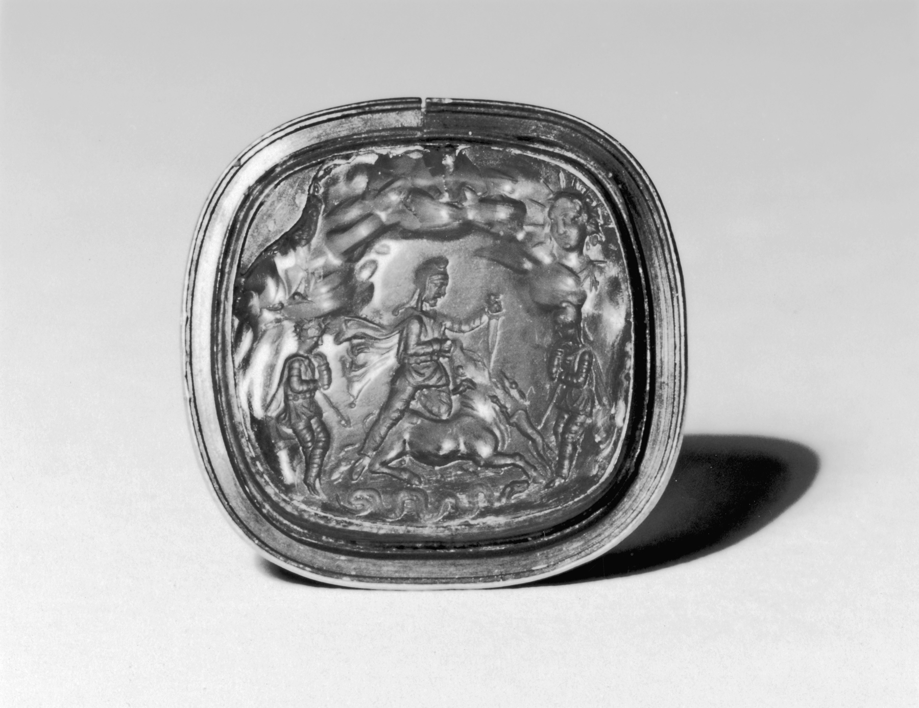 Mithras was a Persian creation god, as well as the god of light. Mithraism, the mystery religion associated with him, spread throughout the Roman Empire. Initiation into Mithraism was restricted to men and was especially popular with soldiers in Rome and on the northern frontier during the 2nd and 3rd centuries AD. According to the Persian myth, the sun god sent his messenger, the raven, to Mithras and ordered him to sacrifice the primeval white bull. At the moment of its death, the bull became the moon, and Mithras's cloak became the sky, stars, and planets. From the bull also came the first ears of grain and all the other creatures on earth. This scene of sacrifice, central to Mithraism, is called the Tauroctony and is represented as taking place in a cave, observed by Luna, the moon god, and Sol, the invincible Sun god, with whom he became associated in Roman times. Mithras is generally depicted flanked by his two attendants, Cautes and Cautopates, and accompanied by a dog, raven, snake, and scorpion. In front of the cosmic cave, Mithras, flanked by his two torchbearers, Cautes and Cautopates, sacrifices the primeval bull. He is surrounded by his attributes, a dog, a snake, and the heads of the sun and moon gods. This is a rare early representation of the Tauroctony, and its fine carving and realistic detail differ from later versions of the god's image.